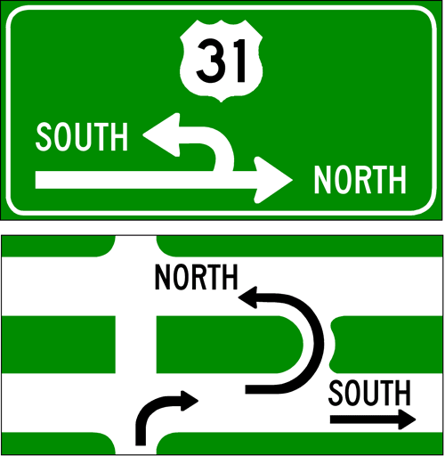 Graphic representation of two different highway signs used to illustrate Michigan Left movements along intersecting roadways. The top sign is commonly used, while the bottom sign is less commonly found.